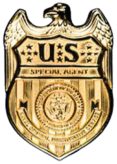 Badge of Naval Criminal Investigative Service (NCIS)